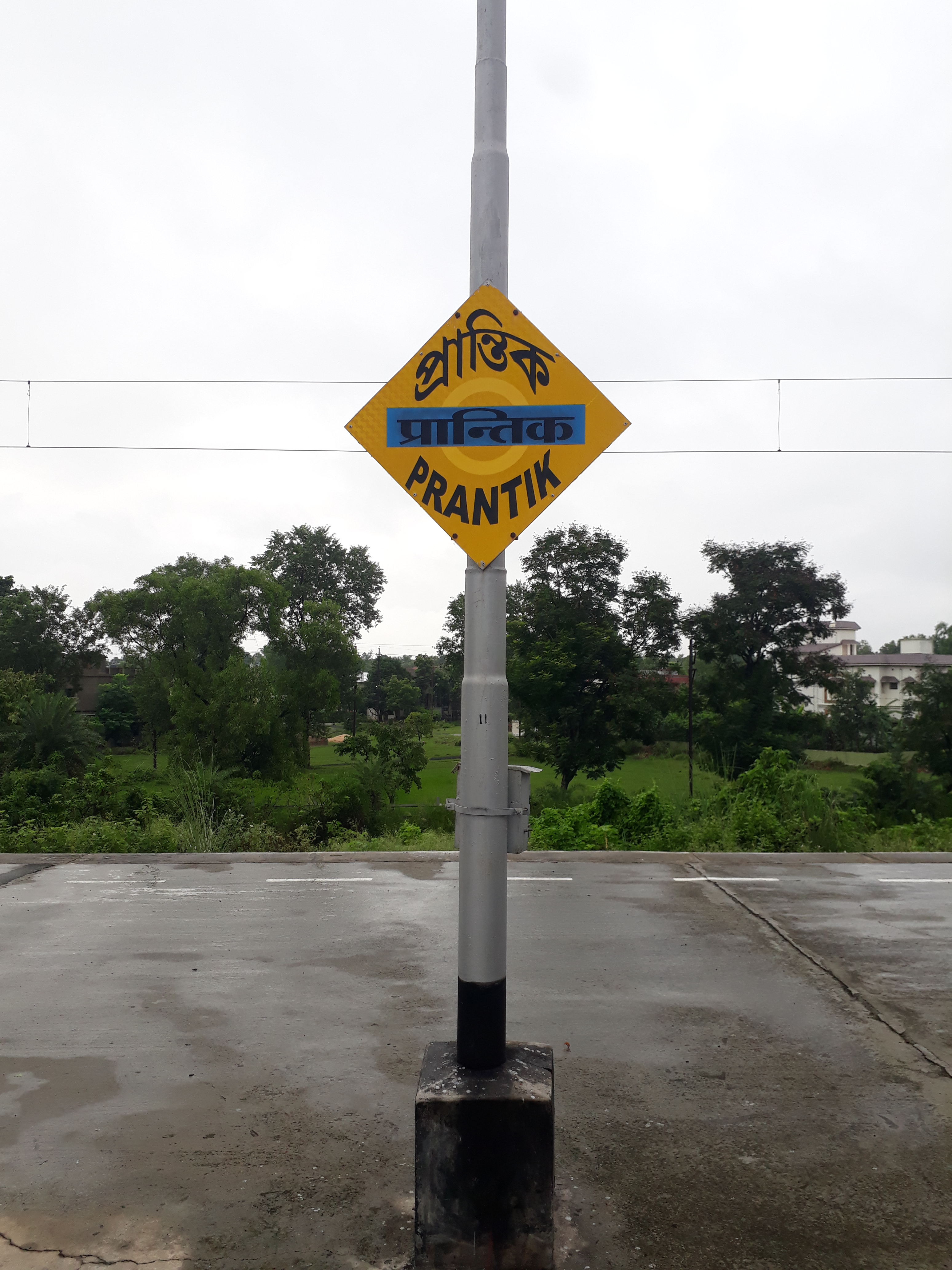 Prantik Railway Station, Bolpur